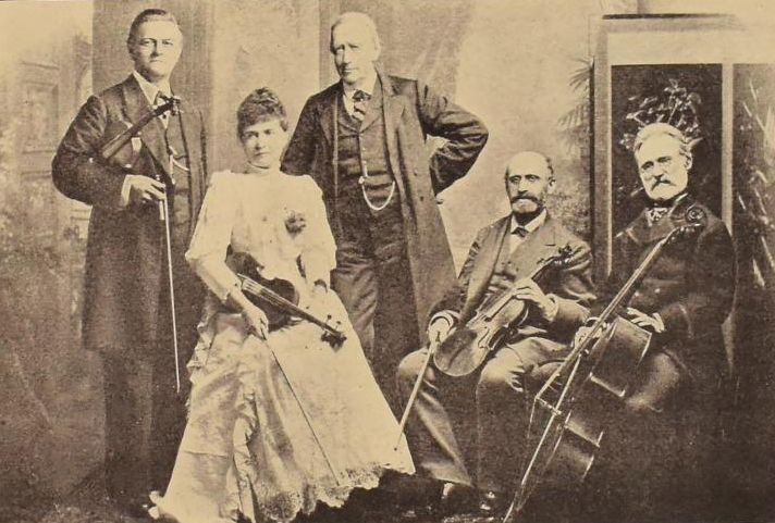 London String Quartet with Charles Hallé: Louis Ries, Wilma Neruda (lady Hallé), Charles Hallé, Ludwig Strauss, Alfredo Piatti